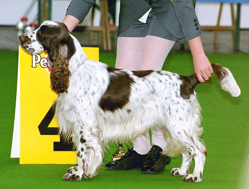 Photograph by Jurriaan Schulman copyright Jurriaan Schulman. Permission is granted to copy, distribute and/or modify under the GFDL, version 1.2 any later version published by the Free Software Foundation; with no Invariant Sections, with no Front-Cover Texts, and with no Back-Cover Texts. Слика:English-Springer-Spaniel.jpg